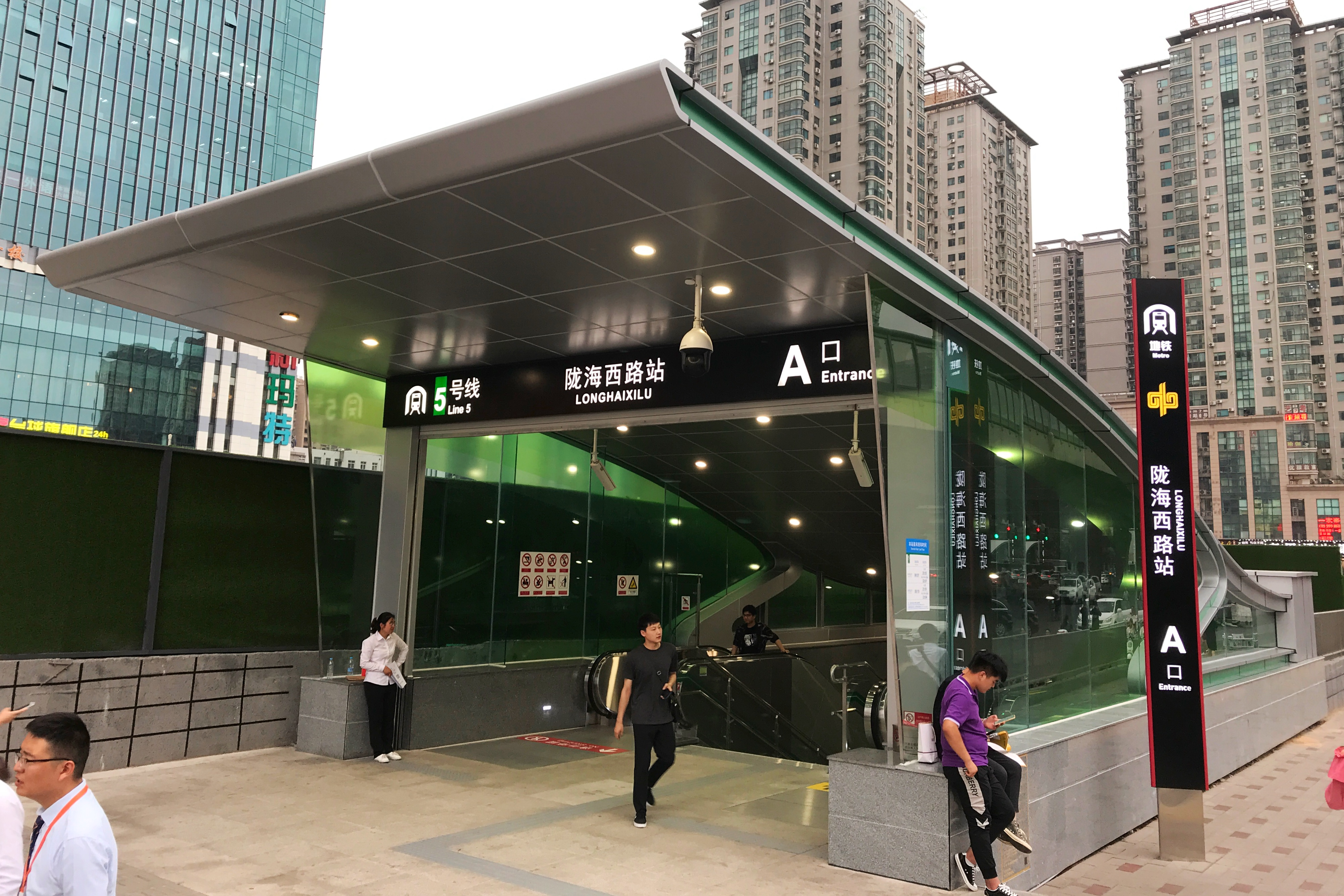 Entrance A of Zhengzhou Metro Longhaixilu Station